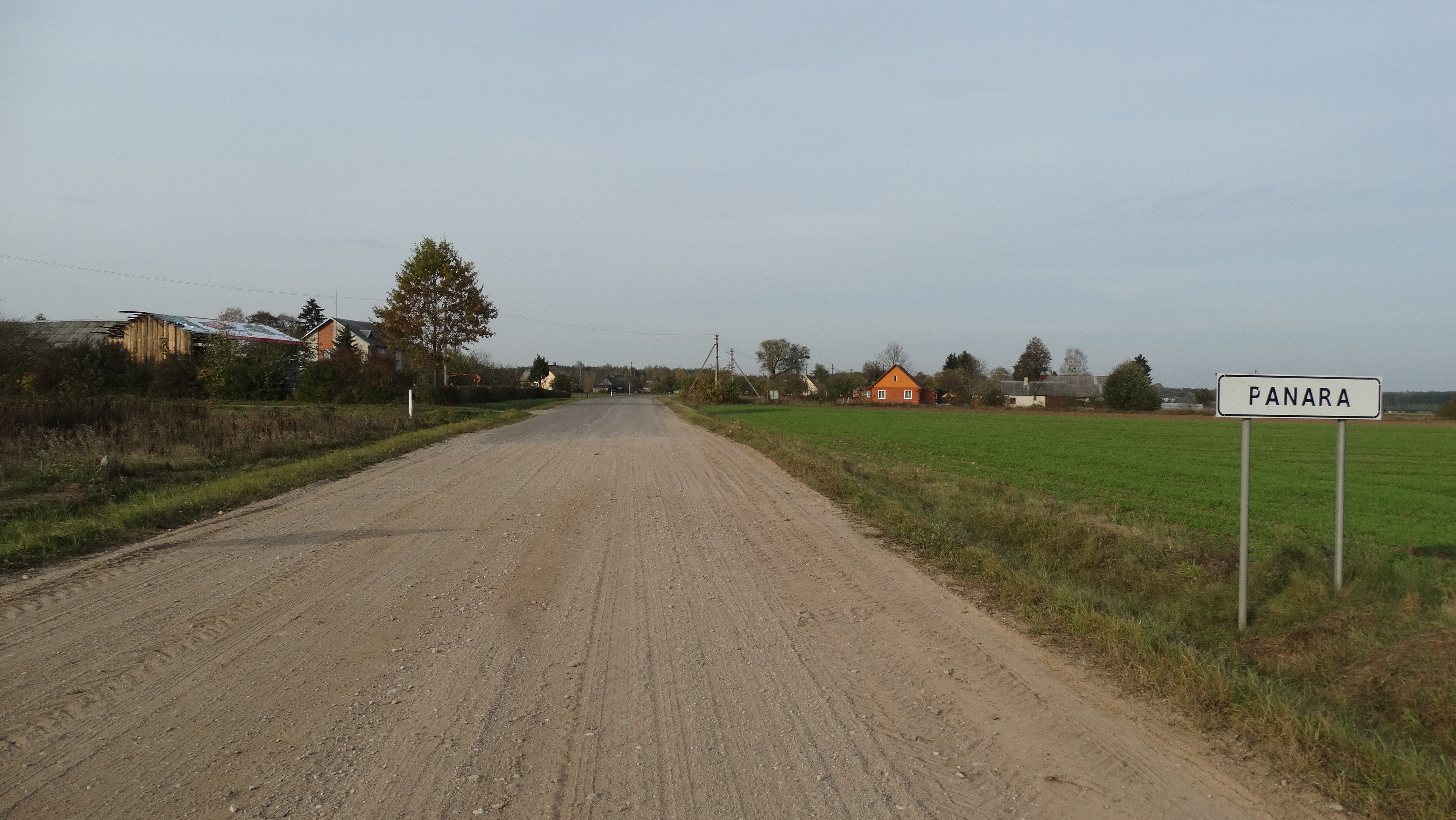 Panara, Varėna district, Lithuania